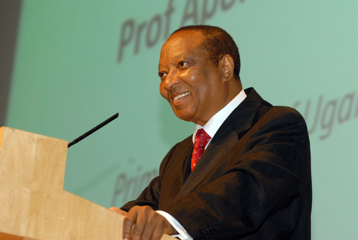 Prof Apolo Nsibambi, Prime Minister of Uganda, addressing the Opening Session of The Fifth Pan-Commonwealth Forum on Open Learning, Commonwealth of Learning, at the University of London, 13-17 July 2008.